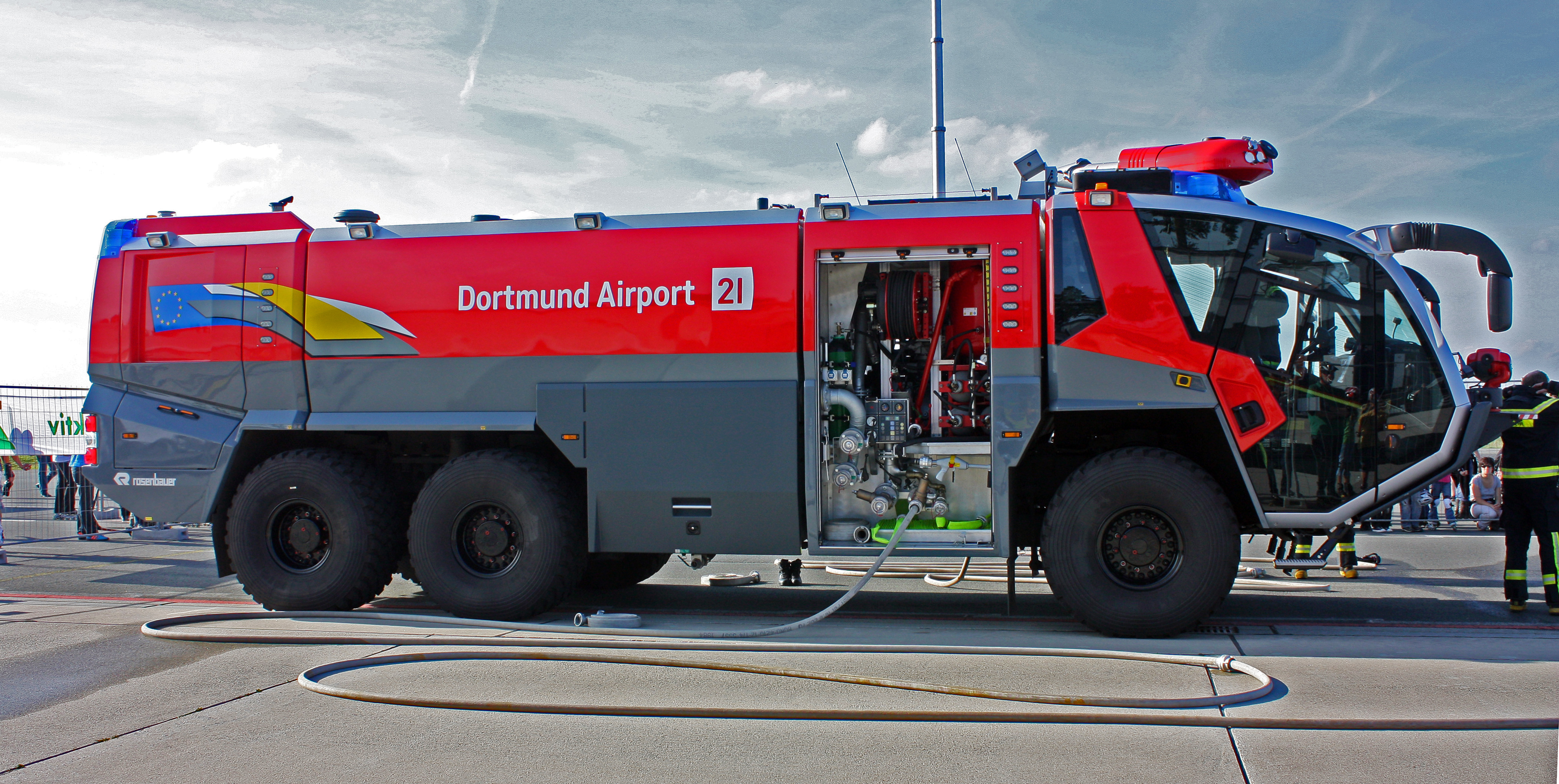 Rosenbauer Panther 6x6 in Dortmund Airport